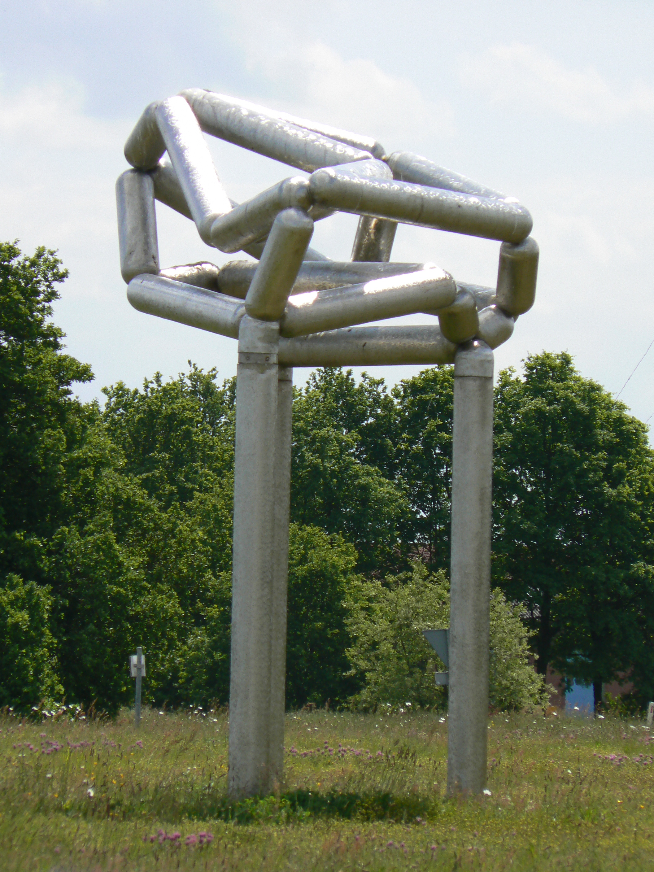 sculpture (2 of 2) The Same But Different (2006) by Richard Deacon in Hoogersmilde, Drenthe/The Netherlands